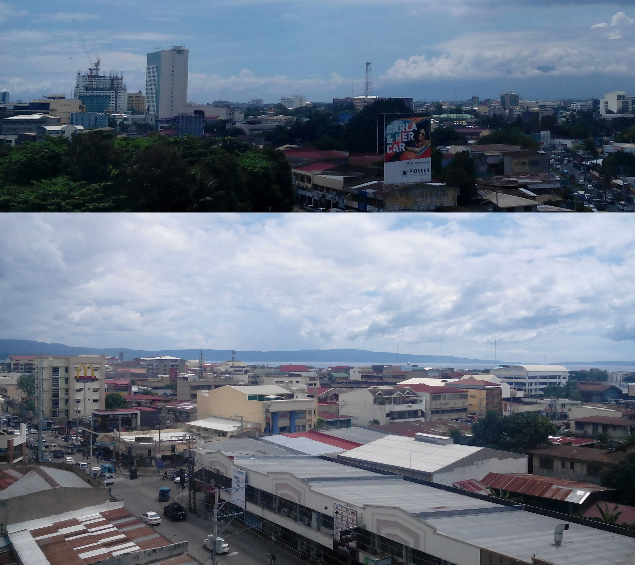 2 pics of Davao skyline